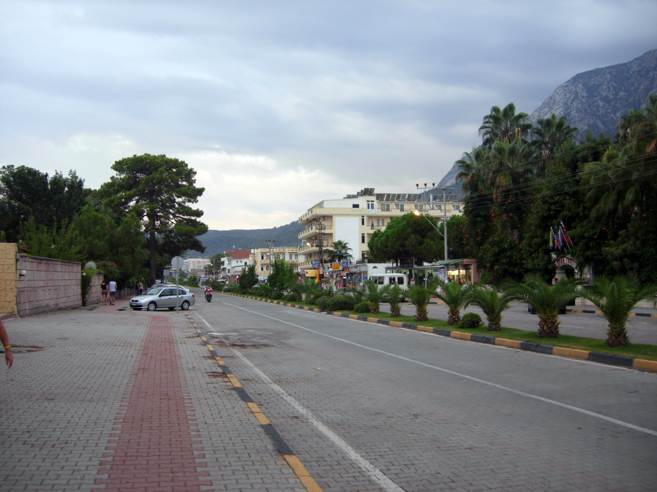 Beldibi (Antalya, Turkey)